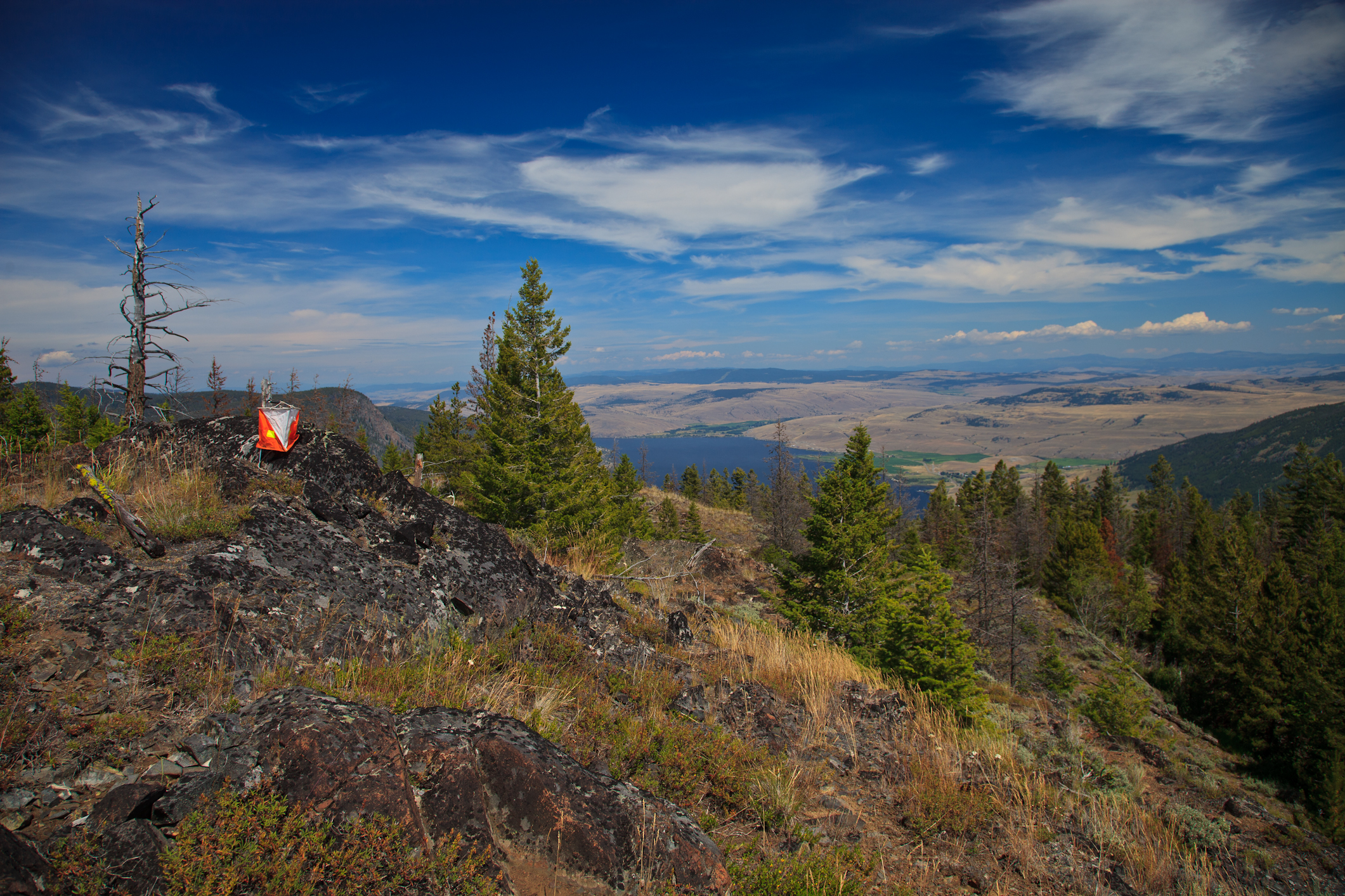 North American Rogaining Championships 2011, 10-11 September 2011, Lundbom Lake, British Columbia, Canada. Checkpoint #67 at 1484 m.